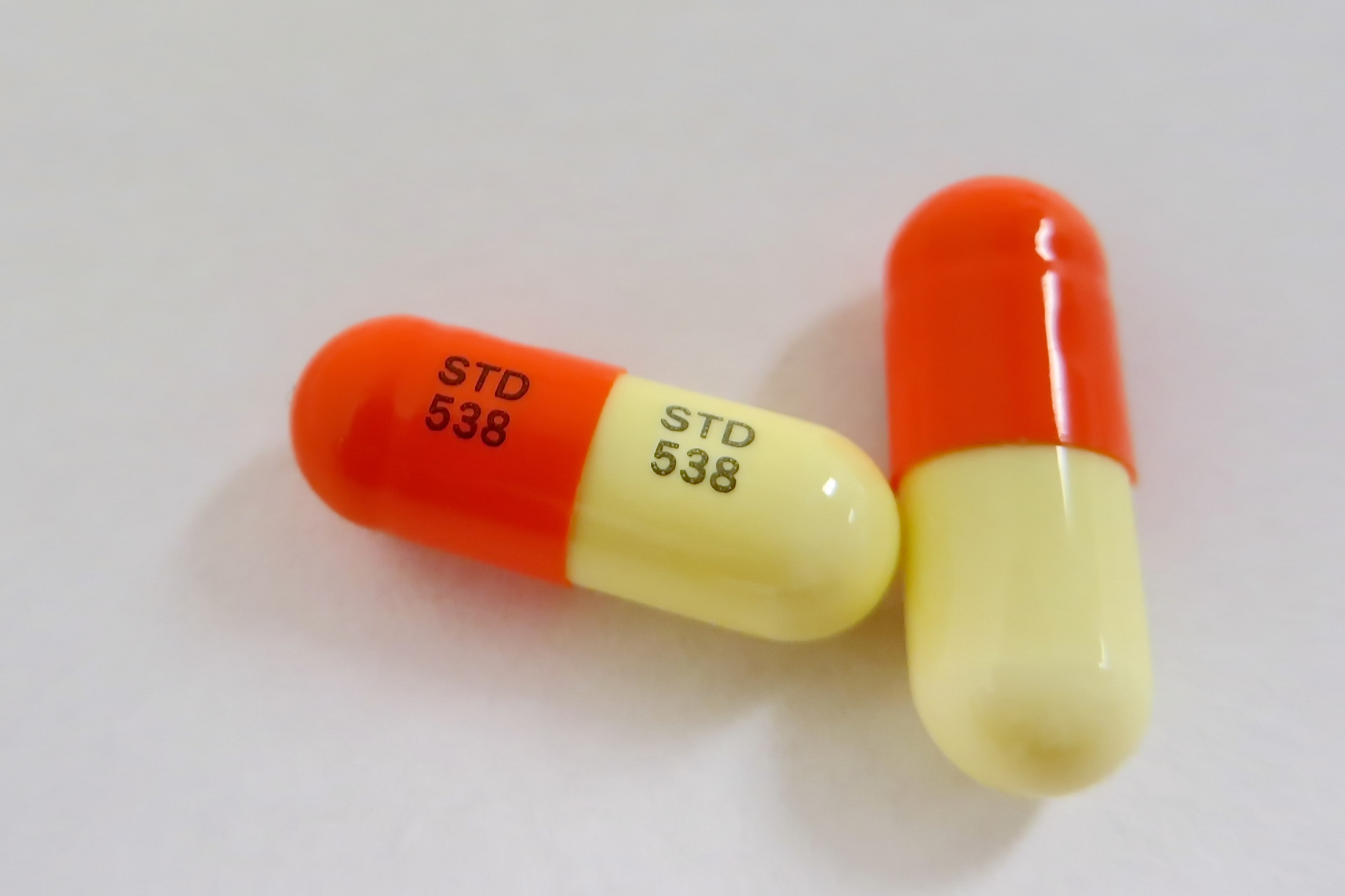 Trand capsules 250mg (Tranexamic acid)